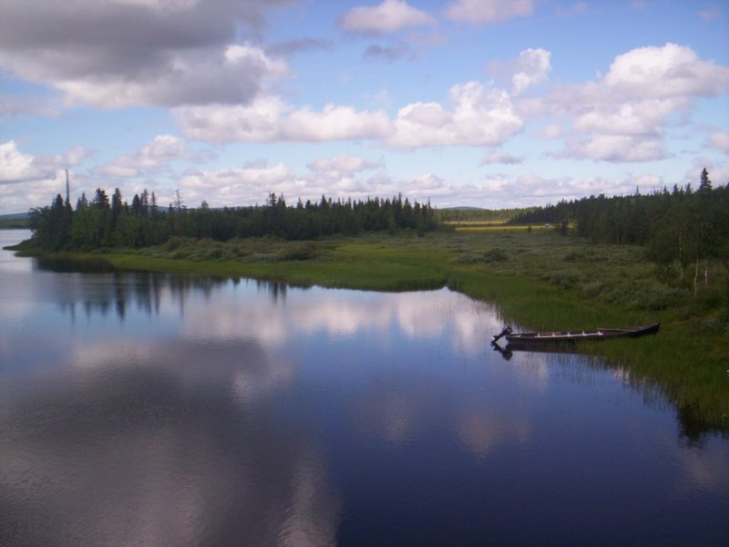 Swedish lake near the Polar circle